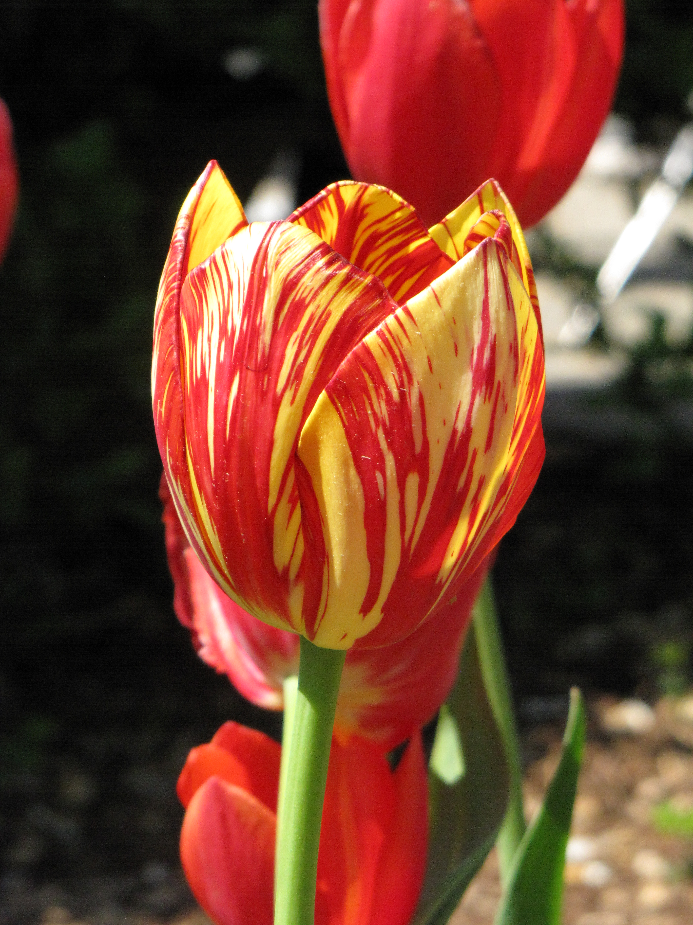 Tulip with variegated colors in Dupont Circle in Washington DC.